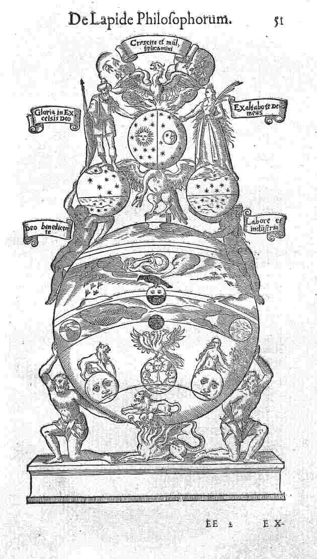 Alchemical air